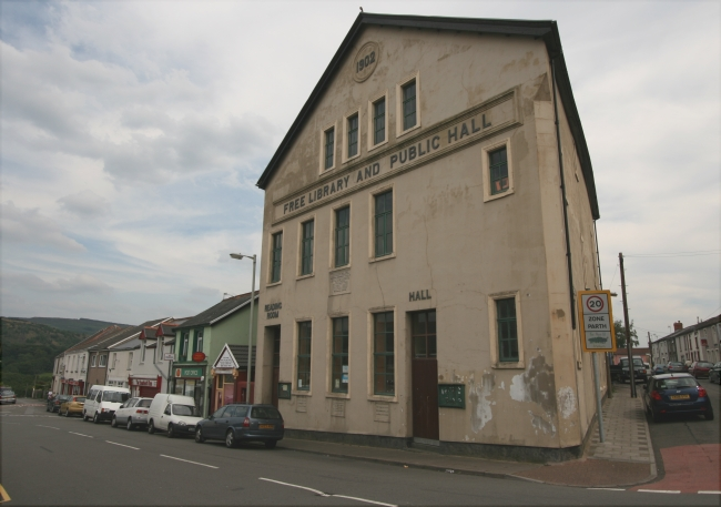 Trecynon Public Hall and Library by Darren Wyn Rees at Aberdare Blog